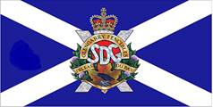 The units camp flag in current configuration.